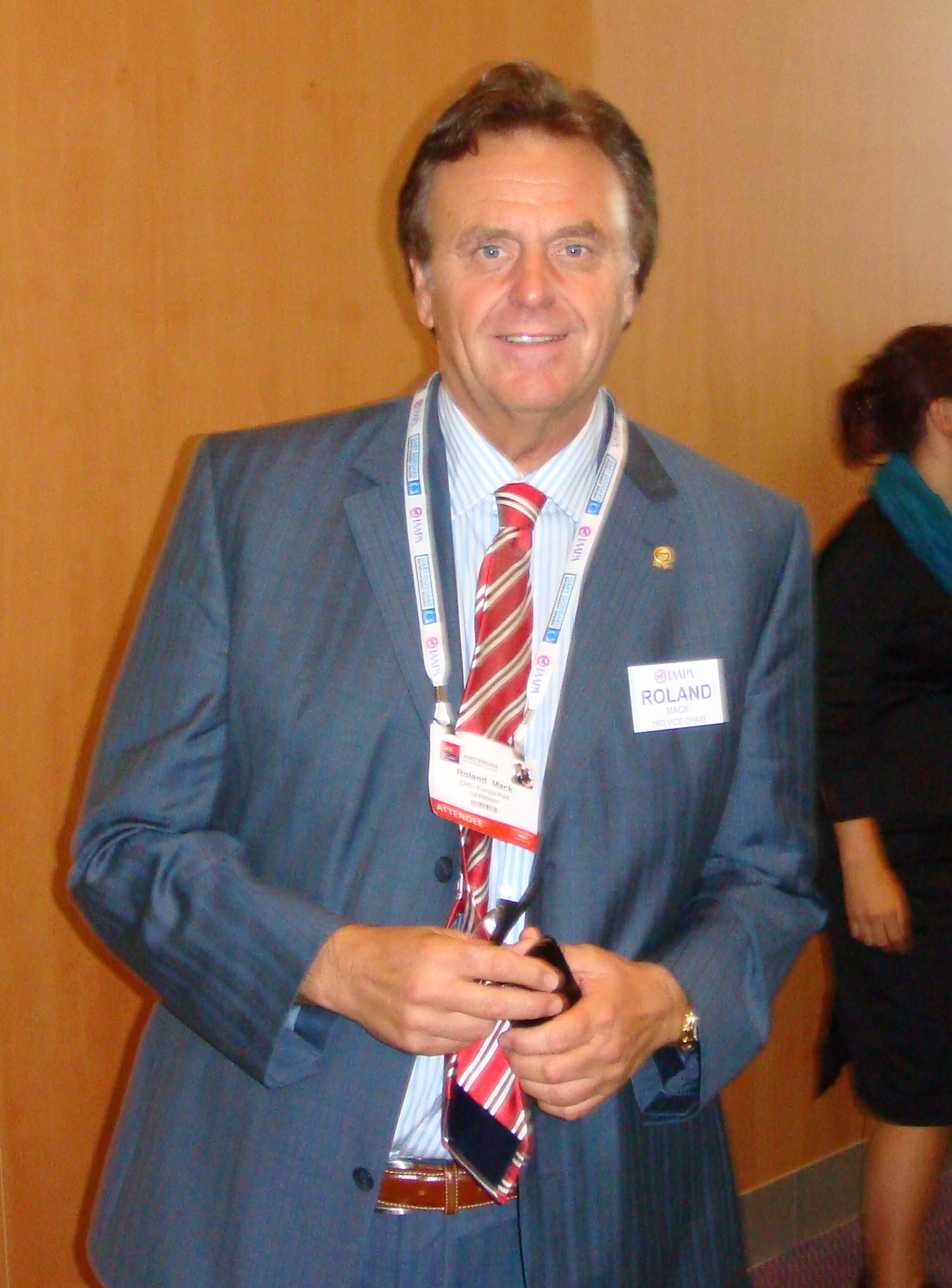 Roland Mack, founder of Mack Rides and Europapark